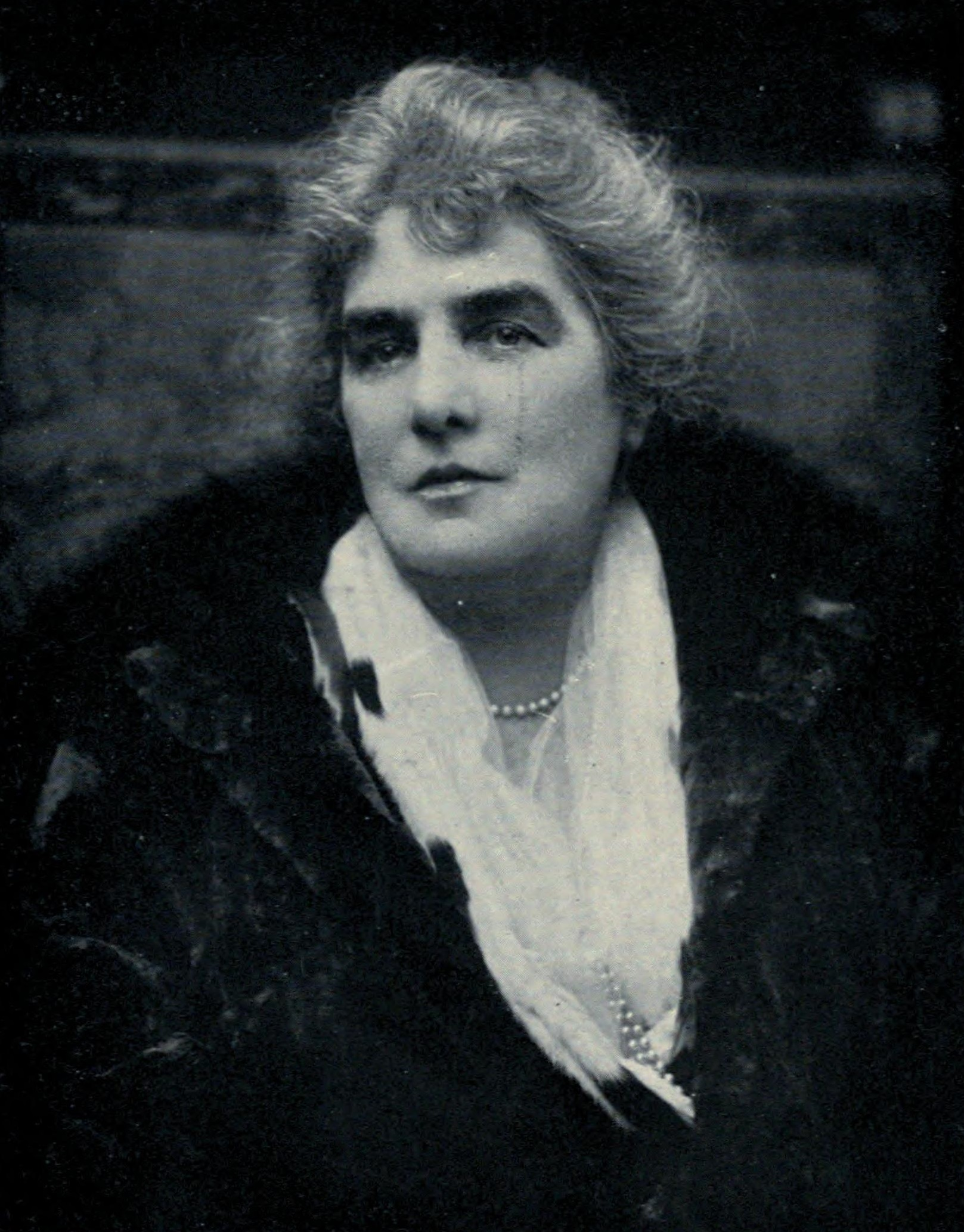 Picture of Lady Randolph Churchill